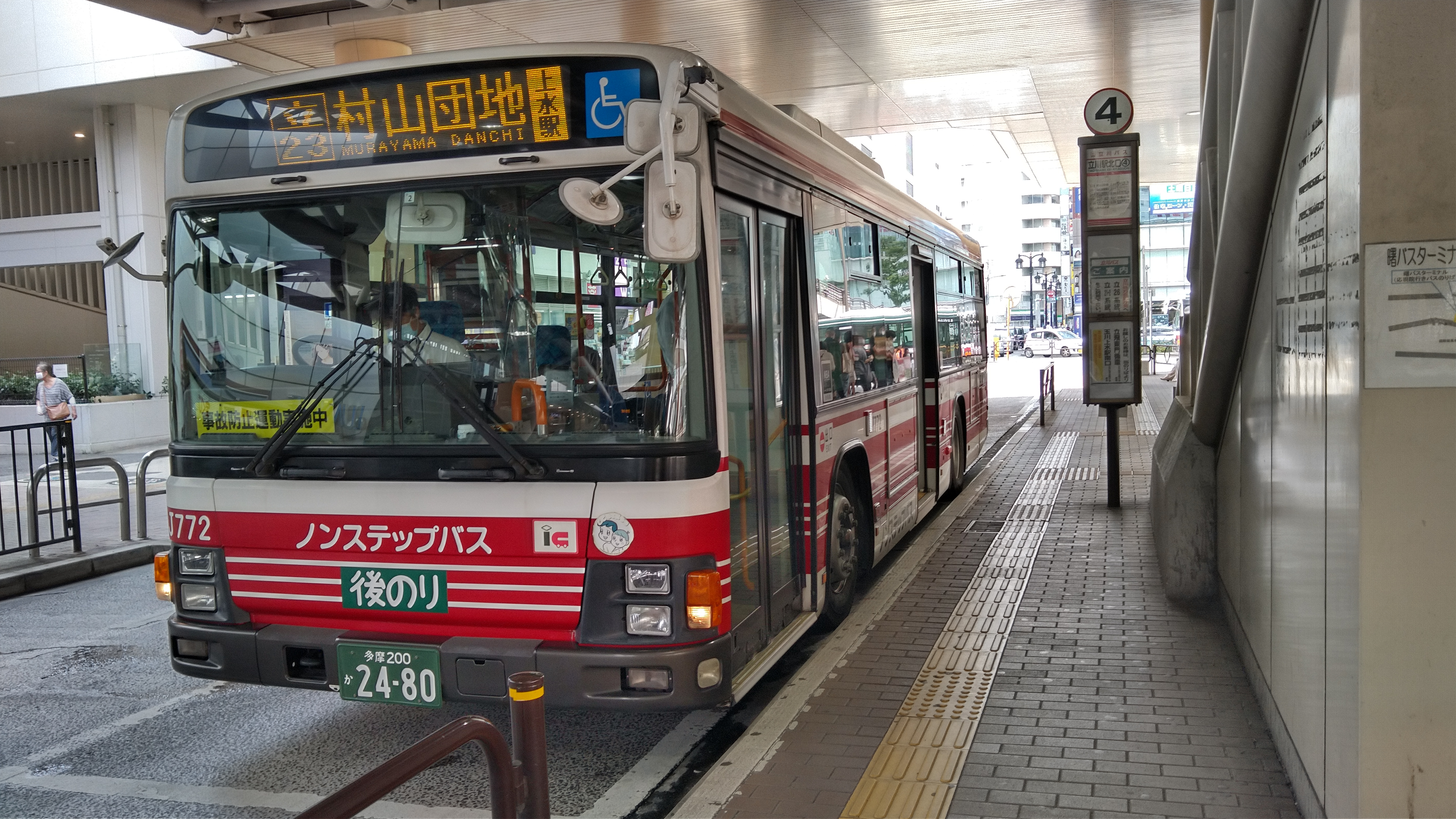 Tachikawa Bus general route car stopped at the north exit of Tachikawa Station